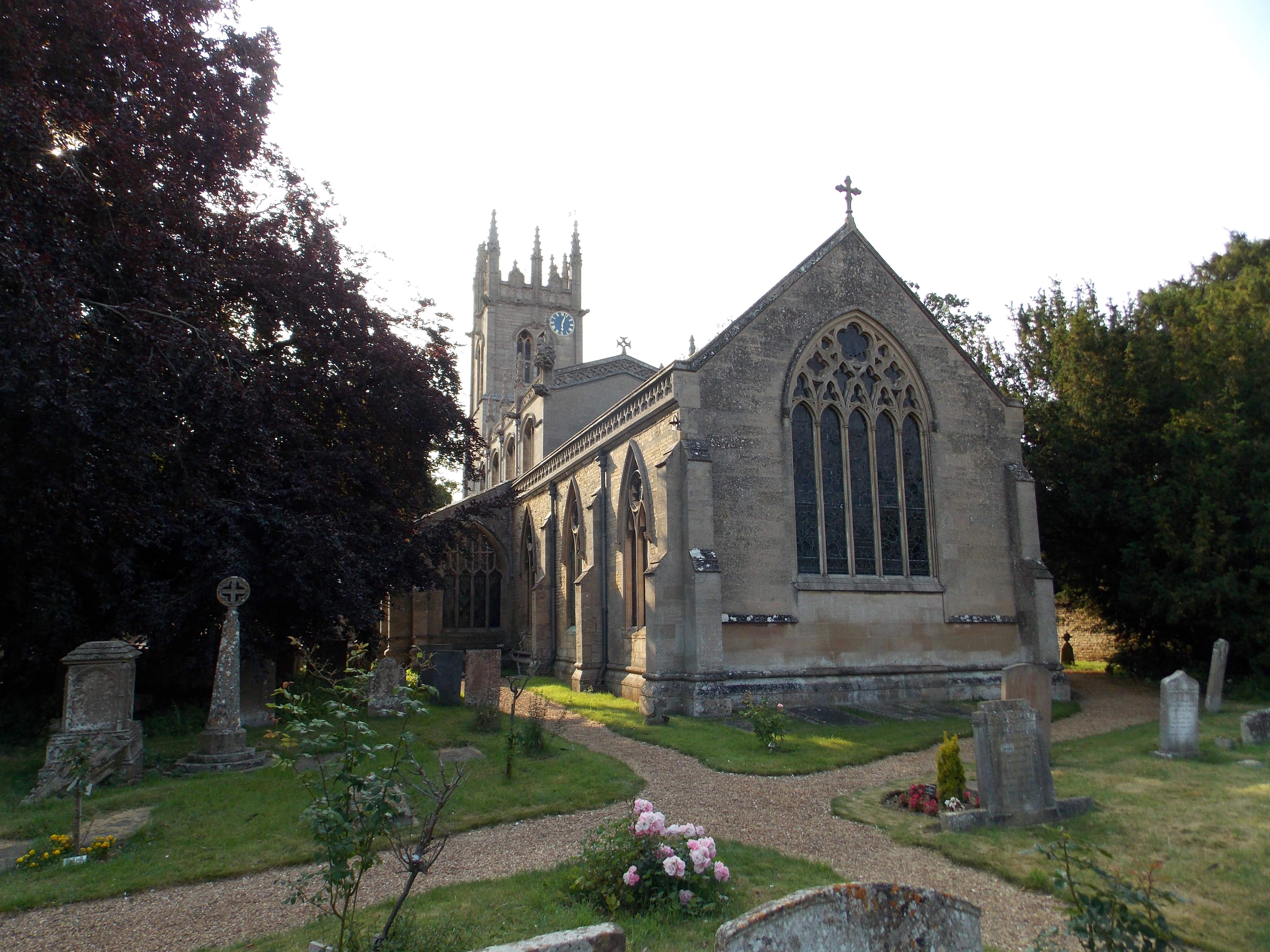 St Nicholas' parish church and churchyard, Fulbeck, Lincolnshire, seen from the southeast